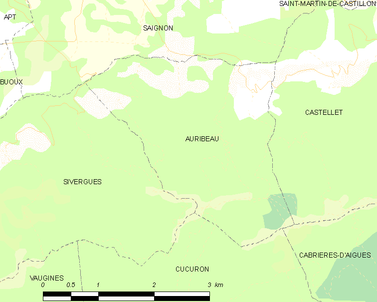 Map of French municipality Auribeau